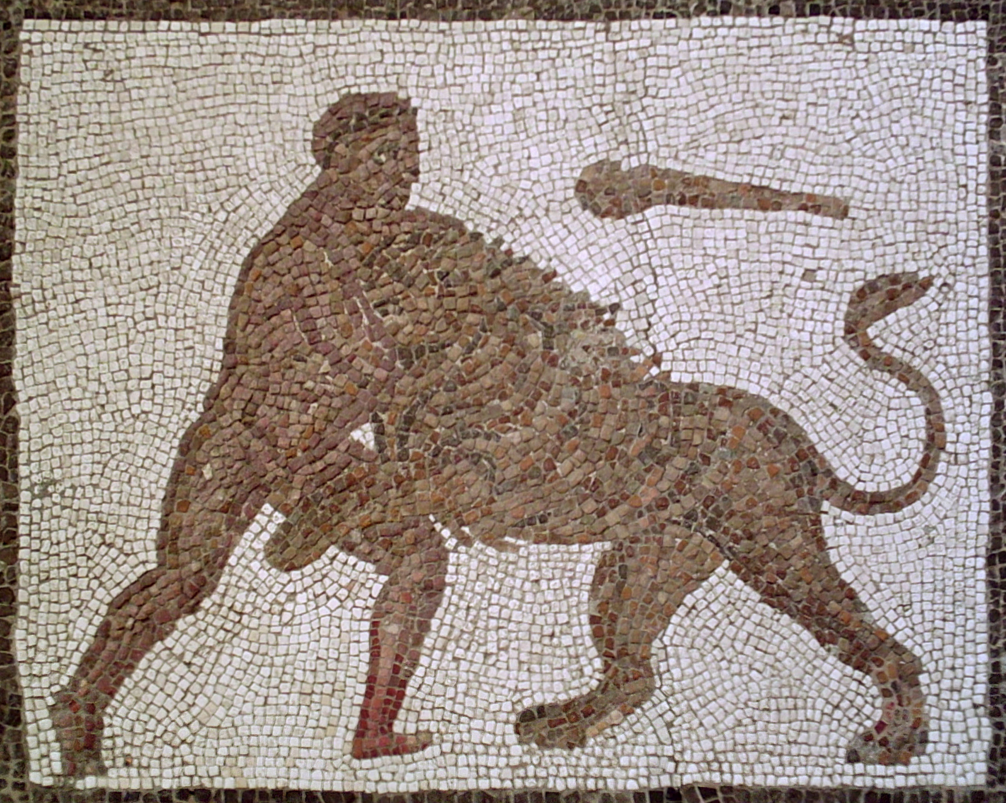 Hercules fighting the Nemean Lion. Detail of The Twelve Labours Roman mosaic from Llíria (Valencia, Spain).